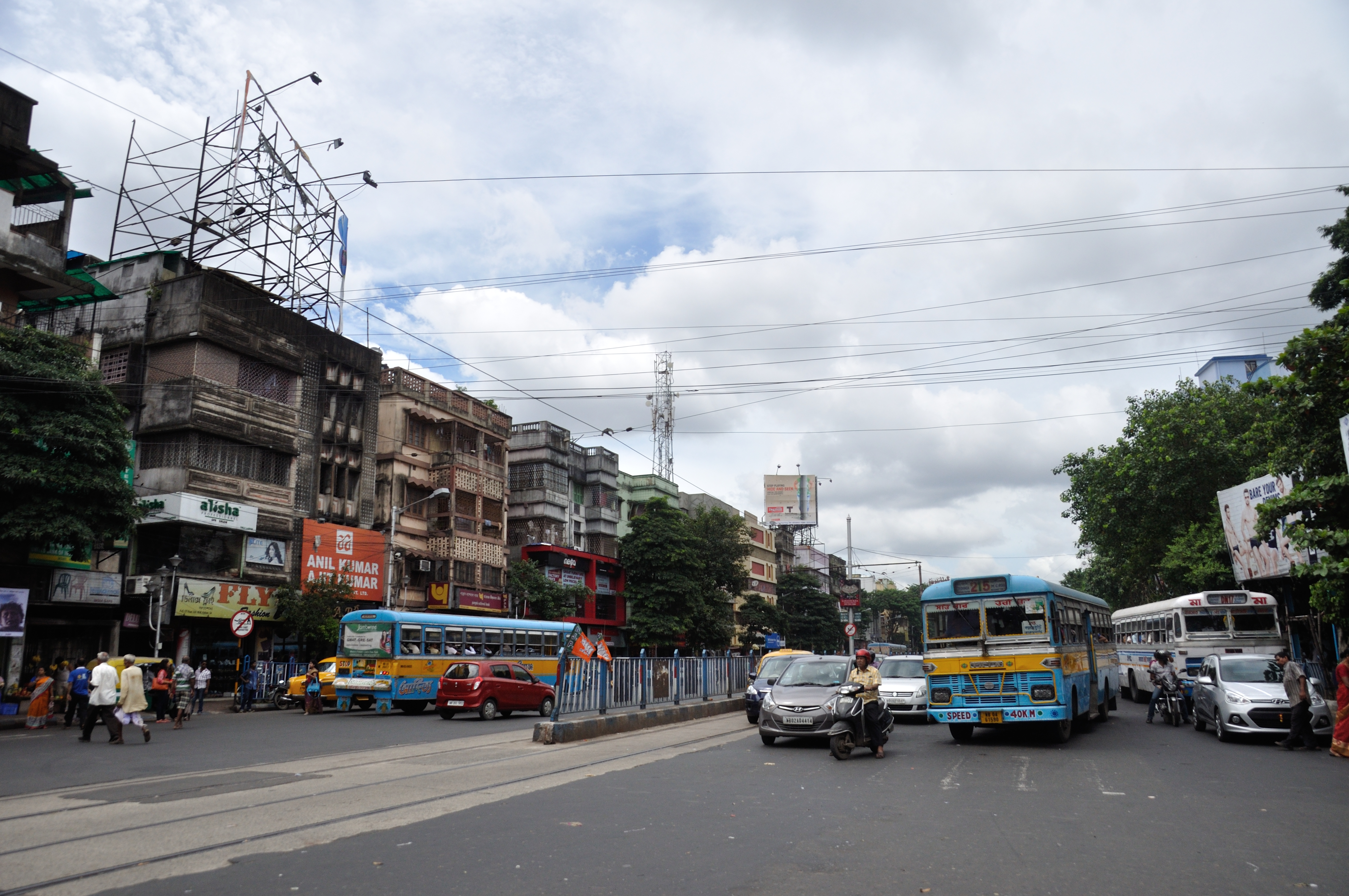 Photographed in Kolkata.